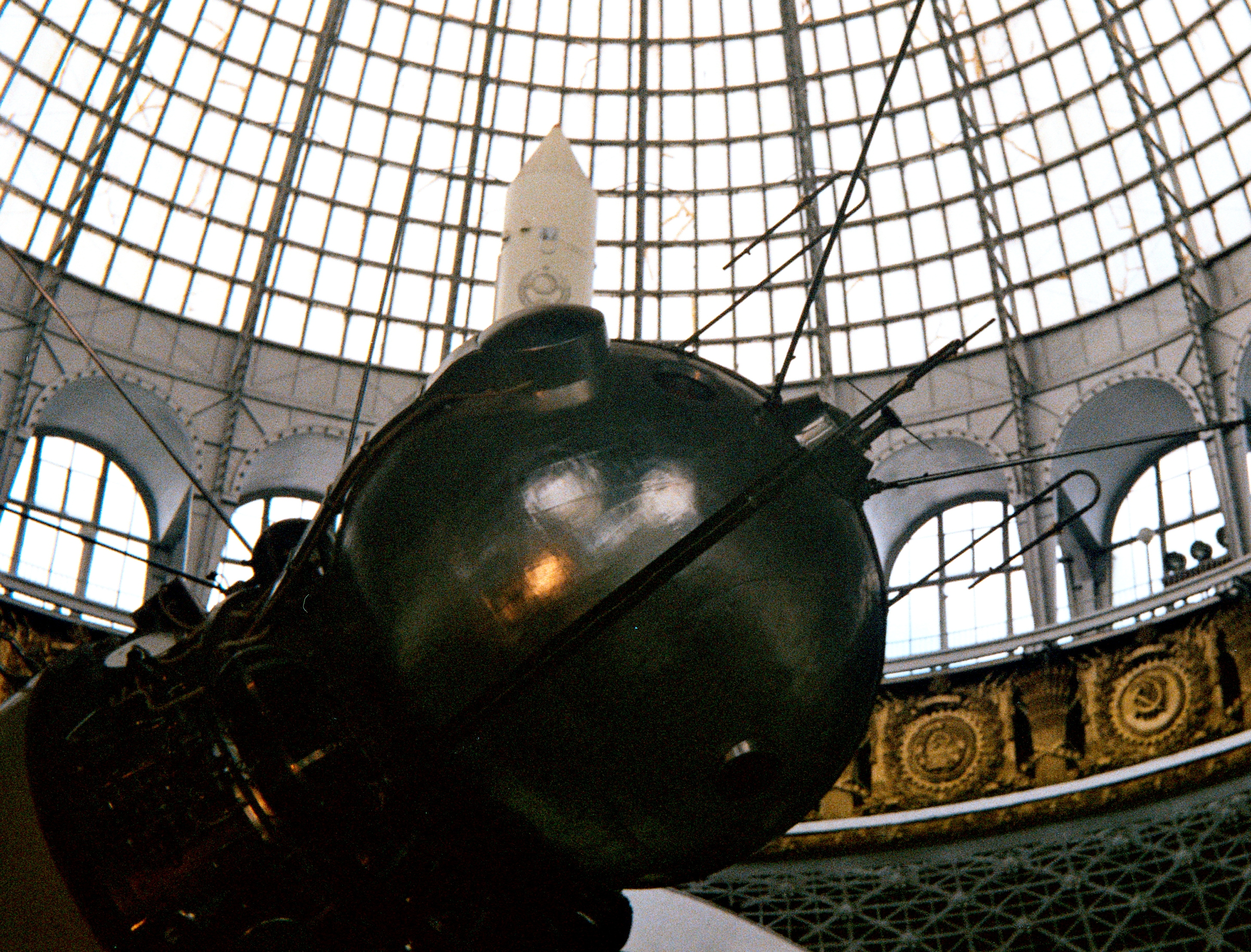 Schau der Wirtschaftserfolge, Moskau - Halle des Kosmos - Wostok-Kapsel